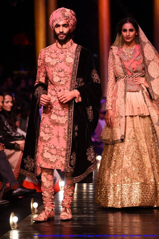 In SabyaSachi Mukherji's designs at Lakme Fashion Week Grand Finale, by Sou Boyy, Sourendra Kumar Das.